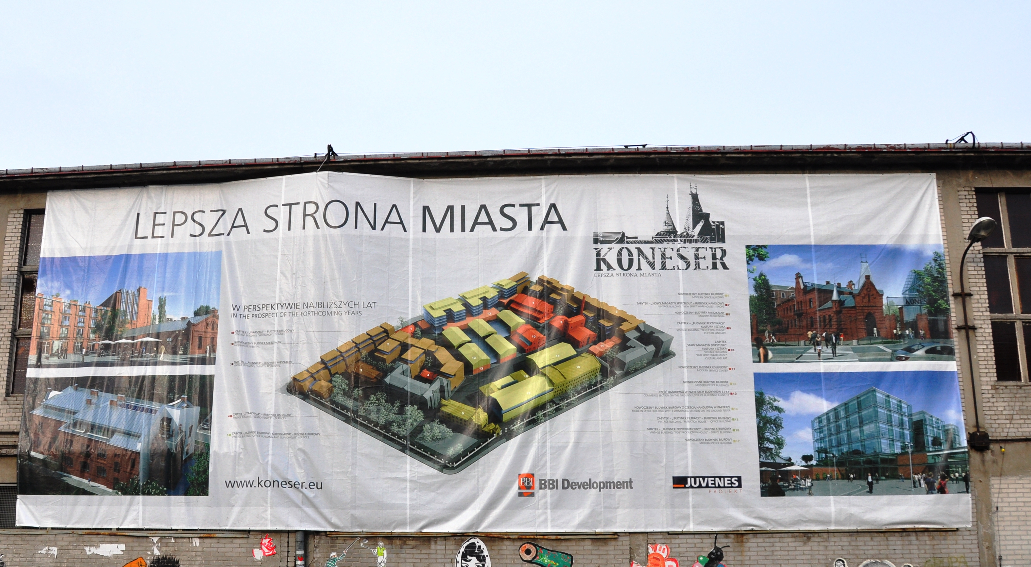 Koneser Factory, Warsaw